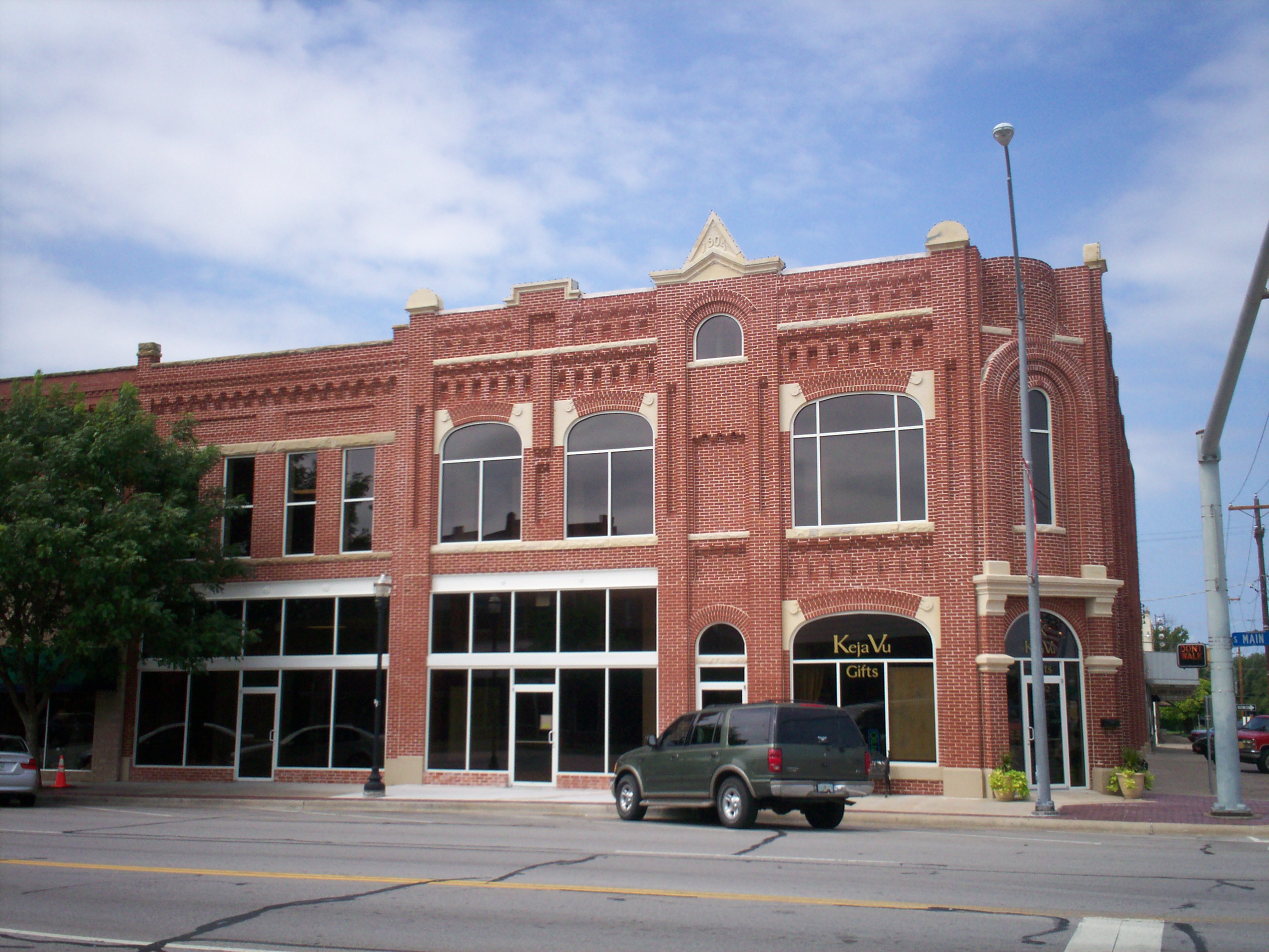 Old Ross Drug building in downtown Broken Arrow, Oklahoma